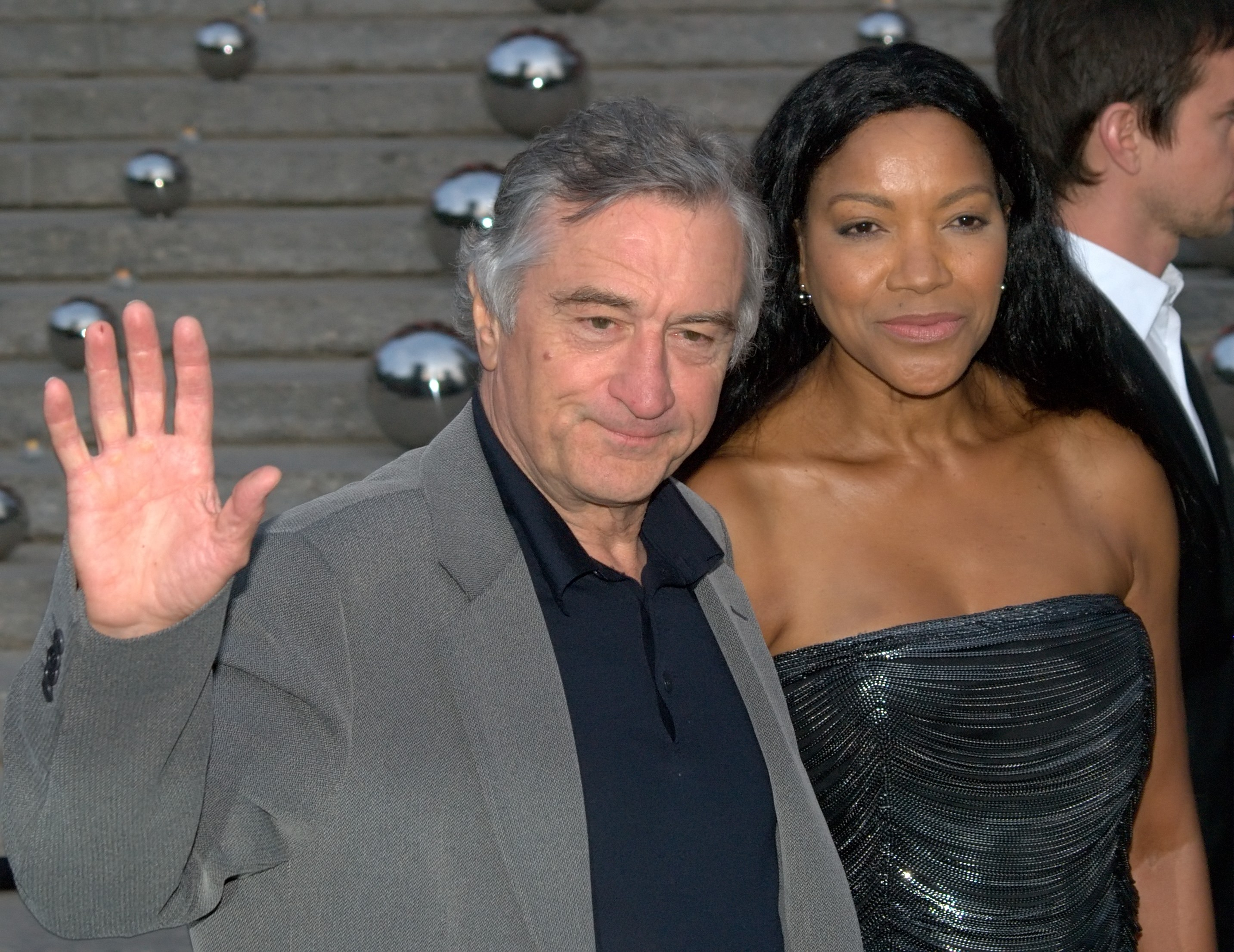 Robert De Niro and his wife Grace Hightower at the 2010 Tribeca Film Festival.